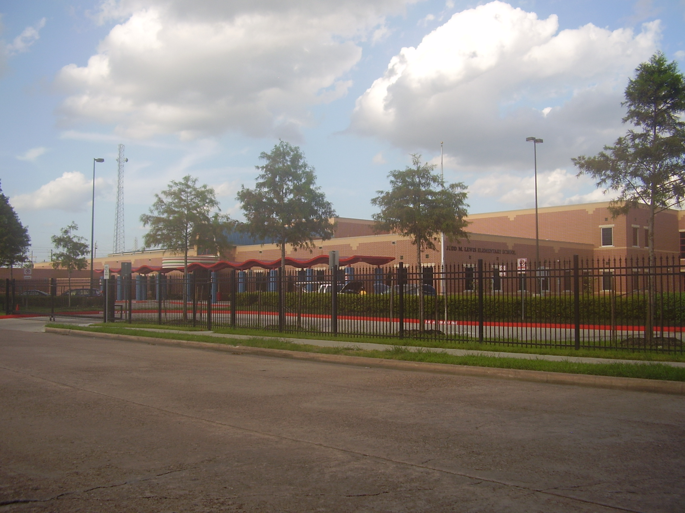 Judd M. Lewis Elementary School